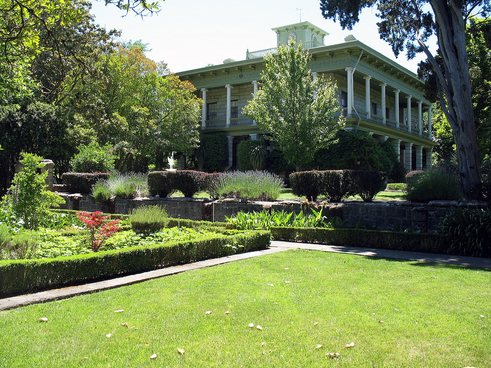 National Register of Historic Places listings in Sonoma County, California. Temelec Hall, 220 and 221 Temelec Circle, Temelec, California. Photographed from the grounds to the northeast of the building